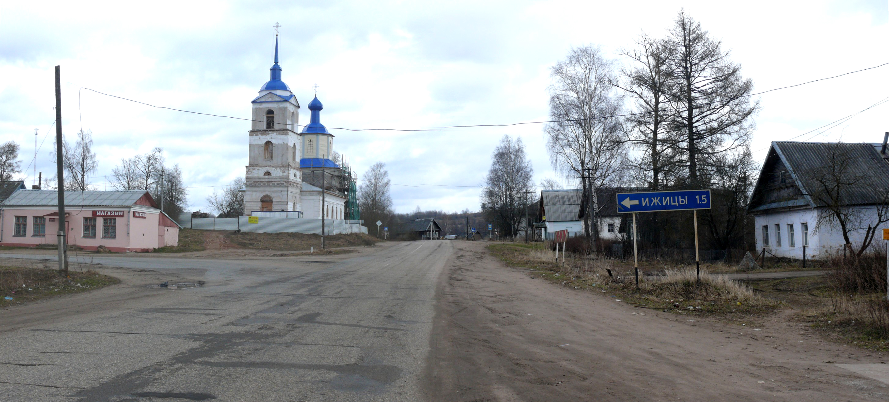 Yazhelbitsy village. Valdaisky district, Novgorod oblast, Russia